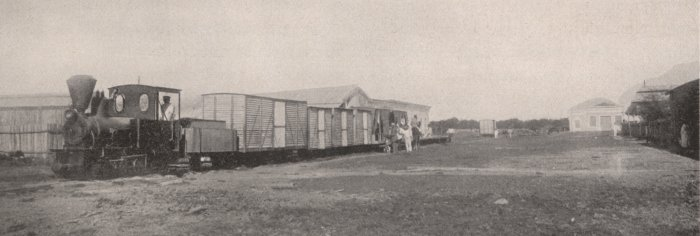 Train from Porto Murtinho to San Roque, in 1913. Originally published in the Album Chart of the State of Mato Grosso, 1914. Removed from the site of Estações Ferroviárias (Railway Stations) by Ralph Mennucci Giesbrecht.